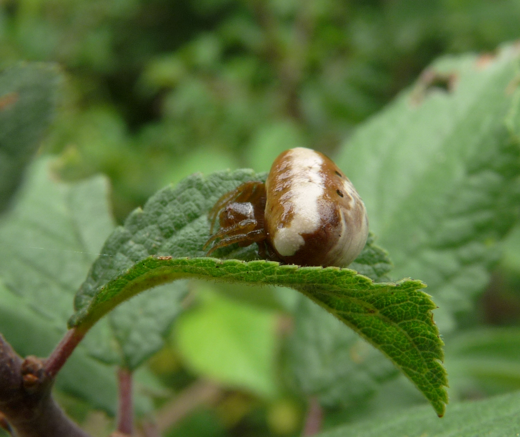 Spider Cyrtarachne ixoides, near Livorno, Tuscany, Italy